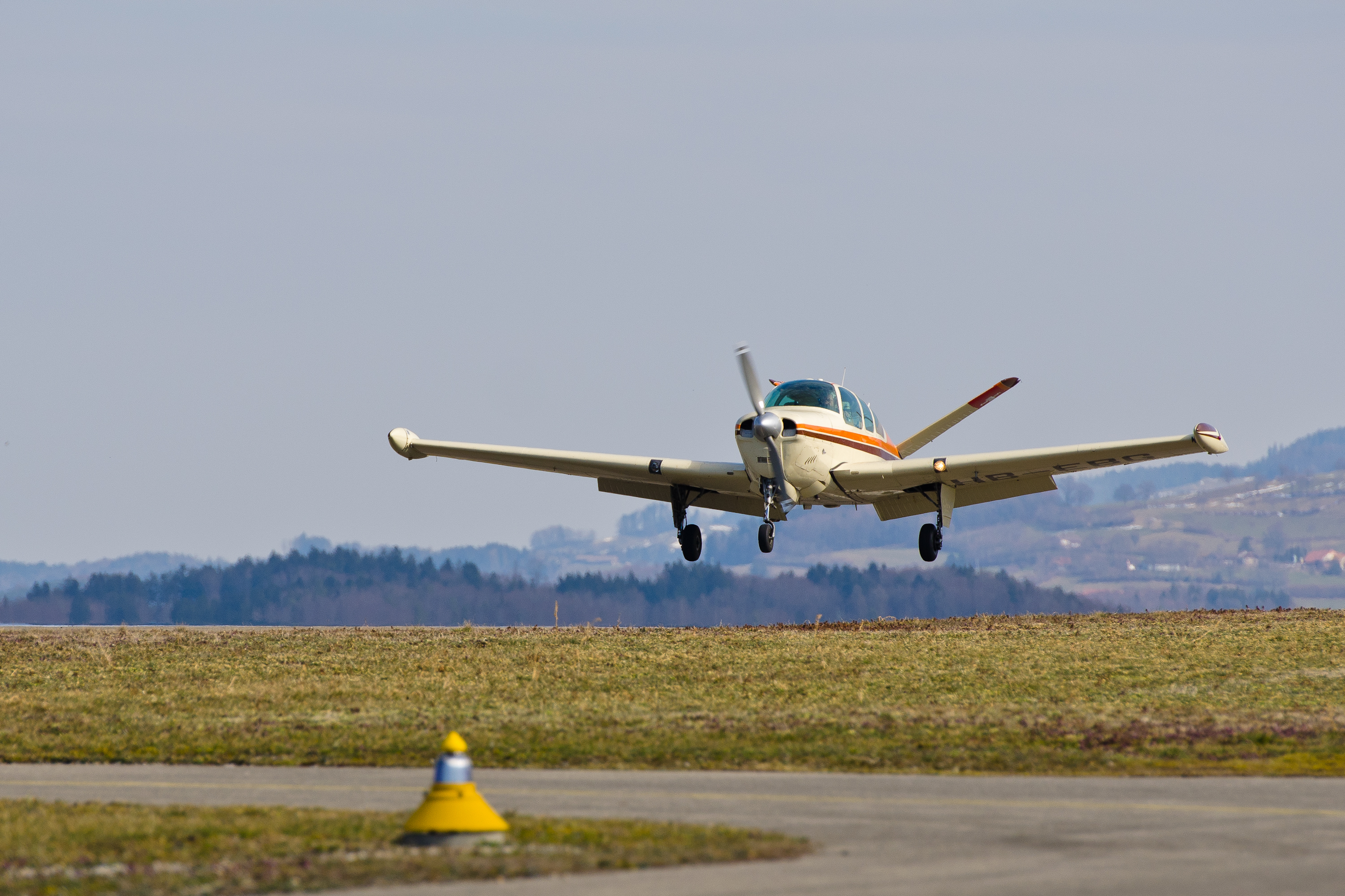 Beechcraft Bonanza 4 seater landing in Ecuvillens Switzerland